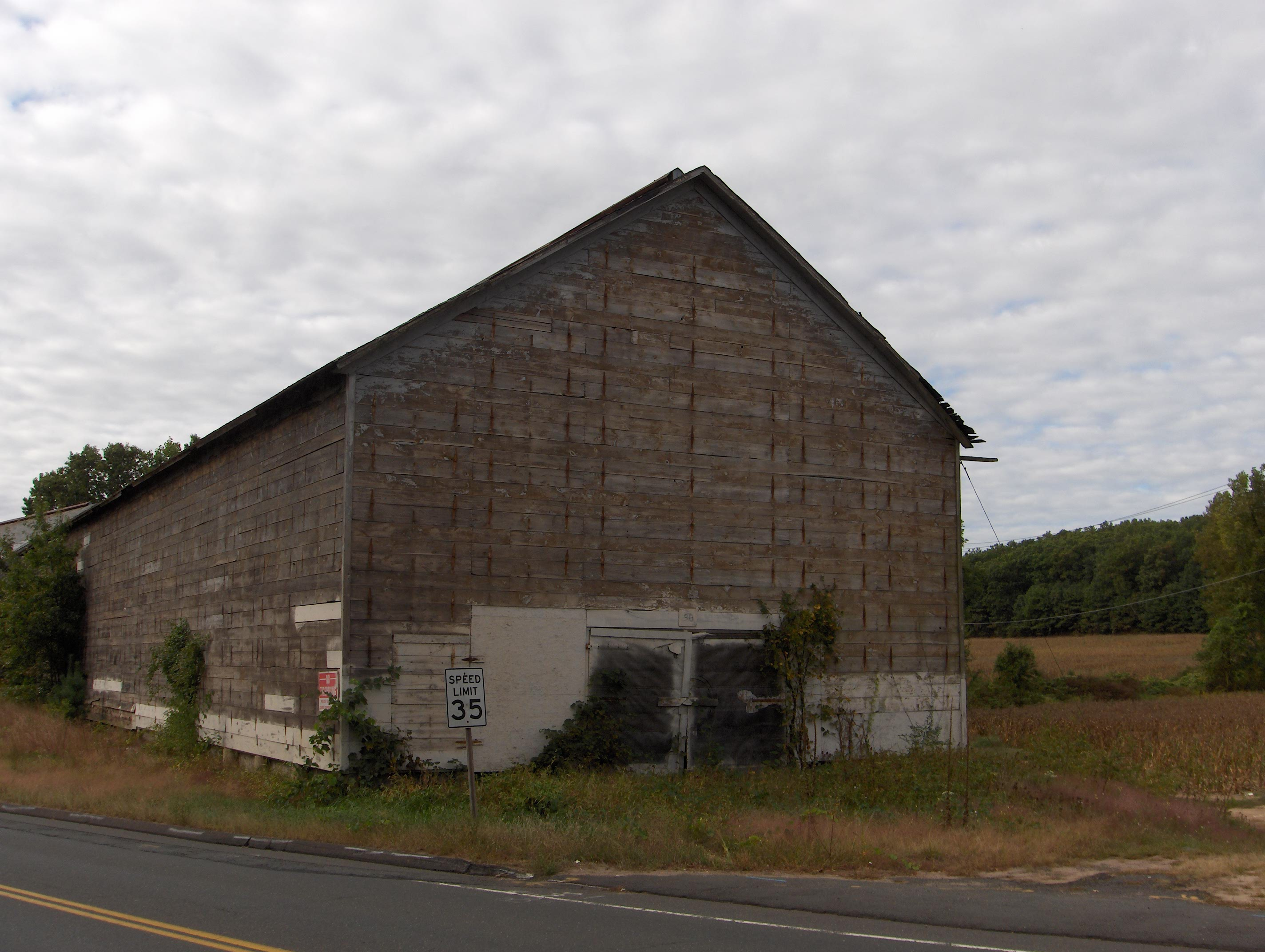 Tobacco barn in Simsbury, Connecticut where shade tobacco used for cigar wrappers is grown.